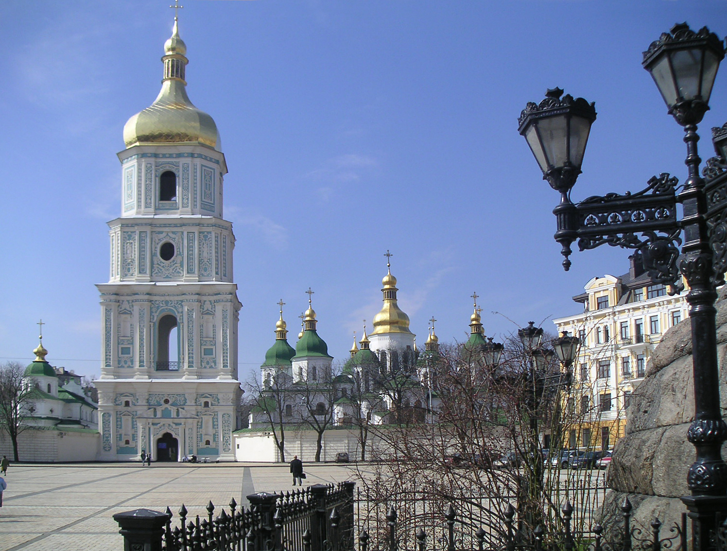 Sophy's Cathedral, Kiev, Ukraine.